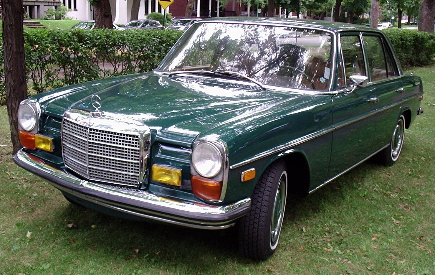 Mercedes-Benz 230 photographed in Montreal, Quebec, Canada at Déjuner sur l'herbe 2010.